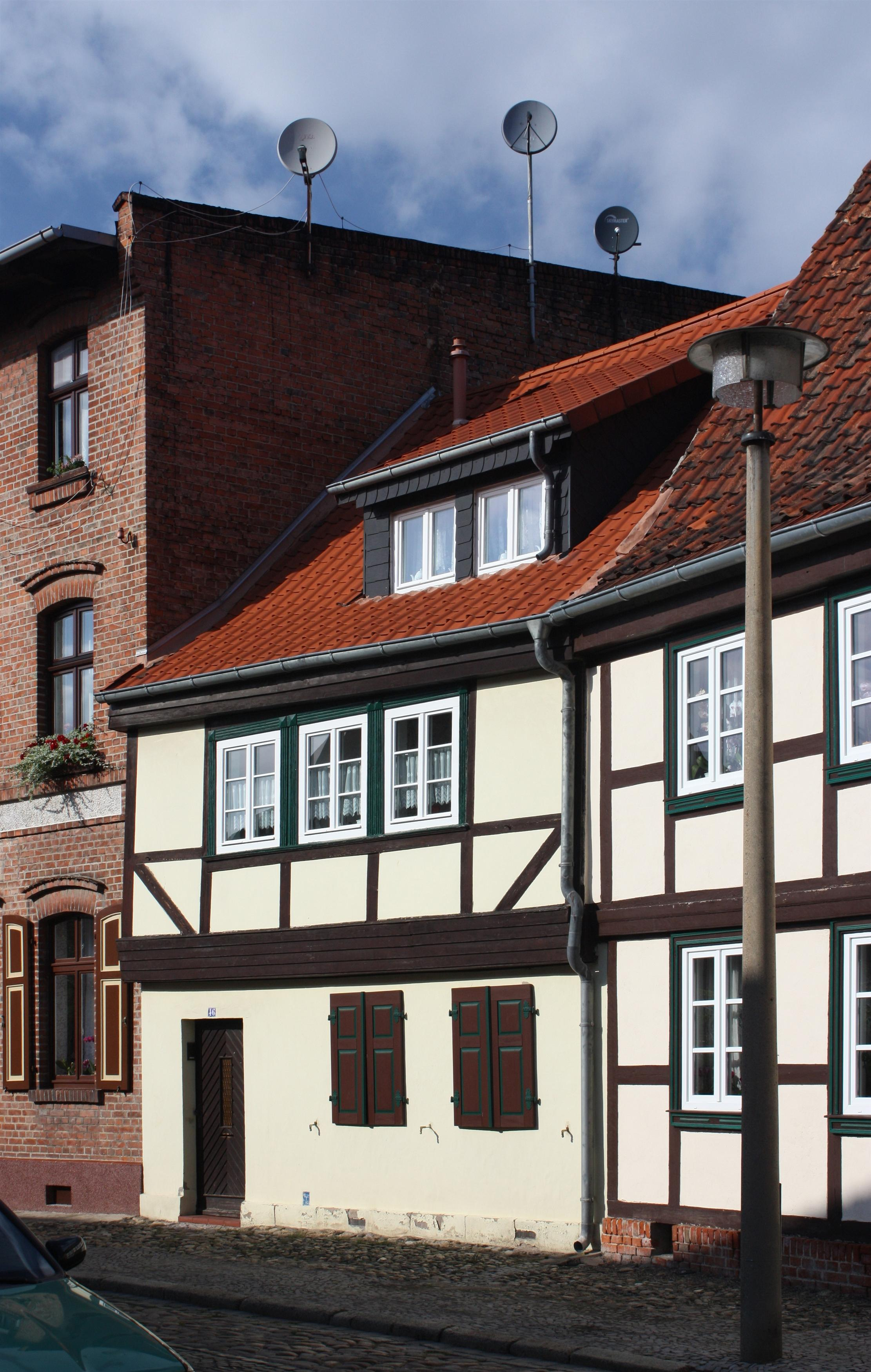 This is a photograph of an architectural monument.It is on the list of cultural monuments of Quedlinburg Augustinern 46 in Quedlinburg